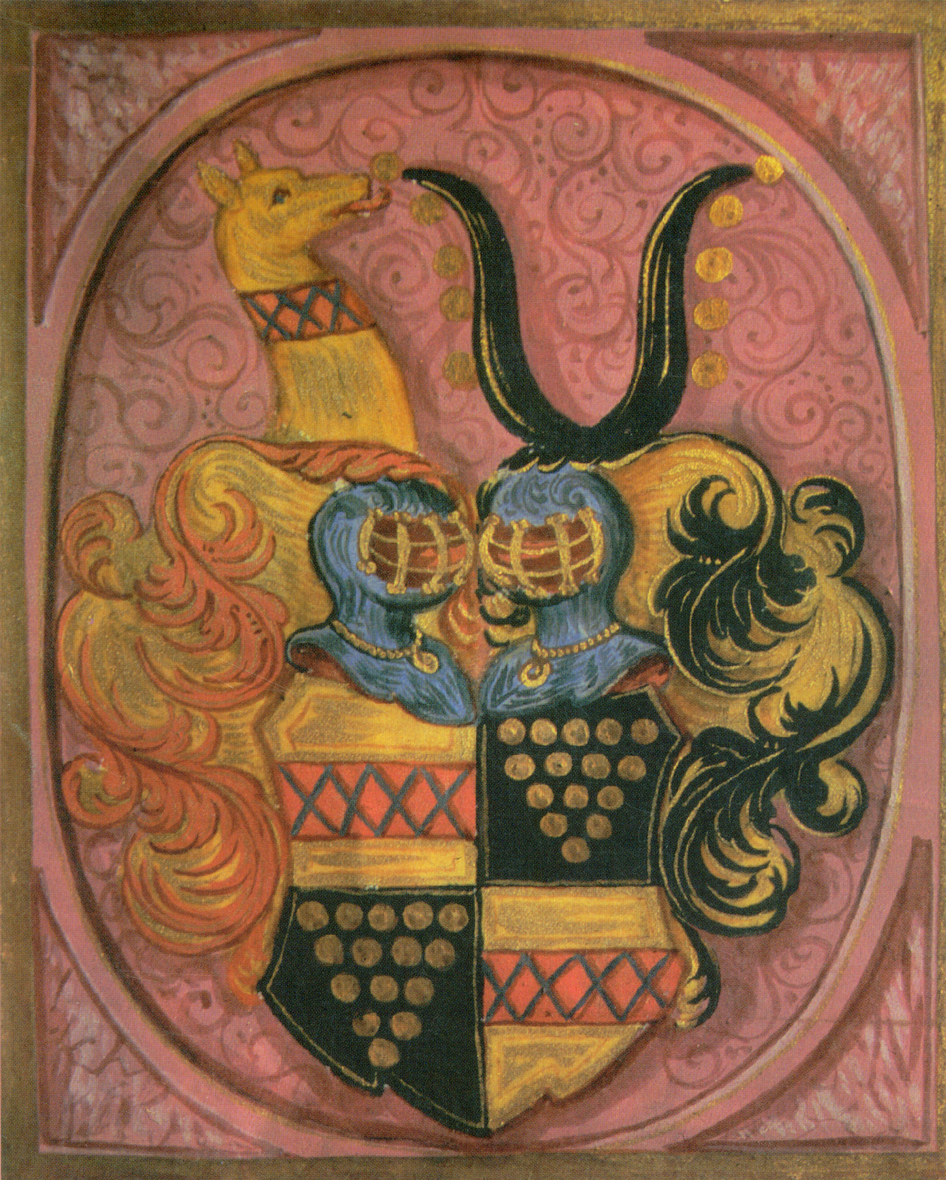 Coat of arms of noble Johann Friedrich (von Bawir) von Franckenberg (1678)